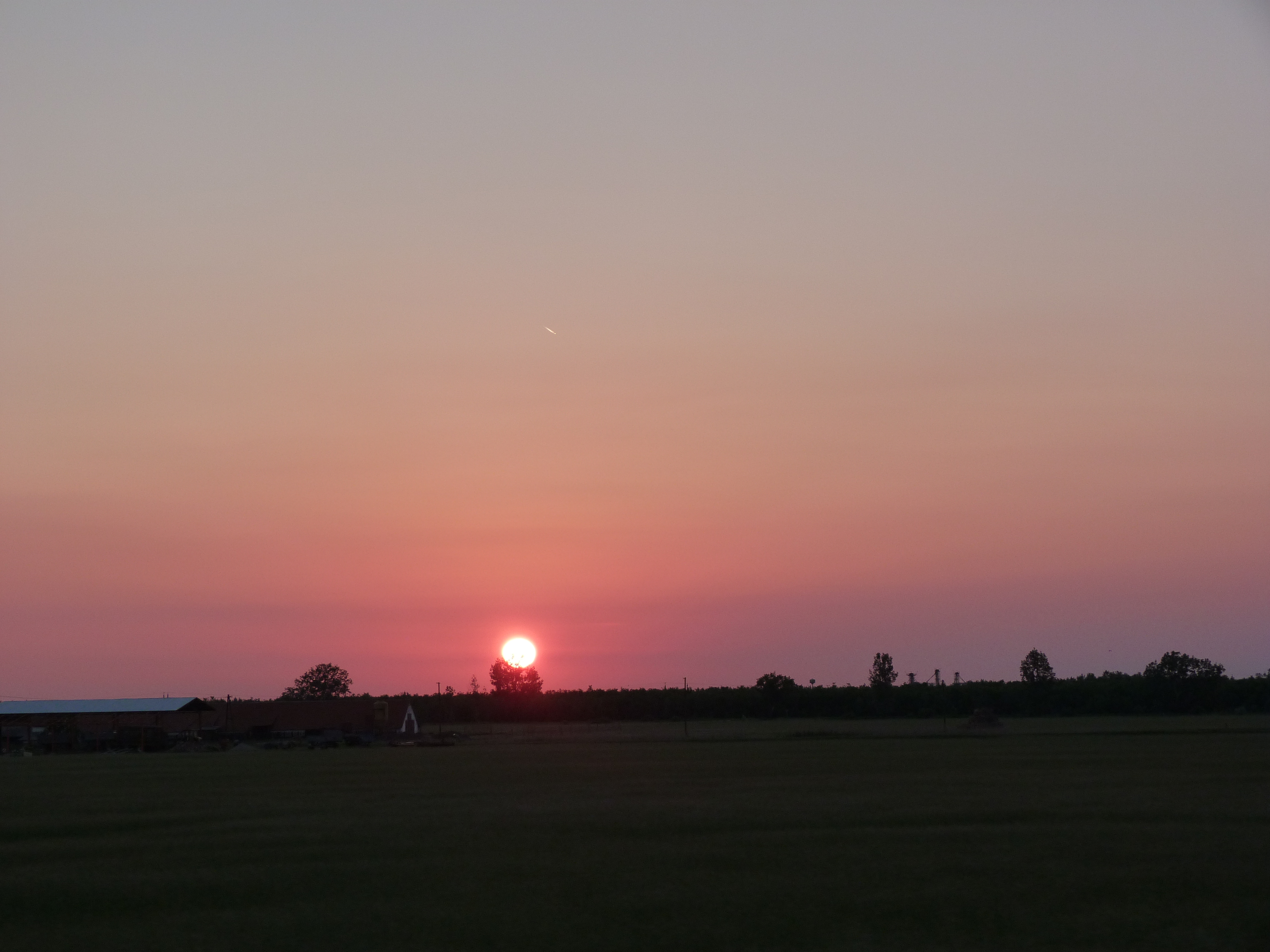 Live on the 15th of May, 2013. Sunset in Kisújszállás (From the Tulipán express train). ©© Derzsi Elekes Andor, Budapest, 2013, You are authorised to use this vid under Creative Commons – even for commercial, for profit - purposes. The vid must be attributed to Derzsi Elekes Andor. All of the photos and vids in the Metapolisz DVD line are under Creative Commons and can be used even for commercial – for profit – purposes. Recommended Citation Derzsi Elekes Andor: Metapolisz DVD line A felvételek 2013. Május 15 –én szerdán készült. Naplemente Kisújszálláson (A Tulipán expresszről).